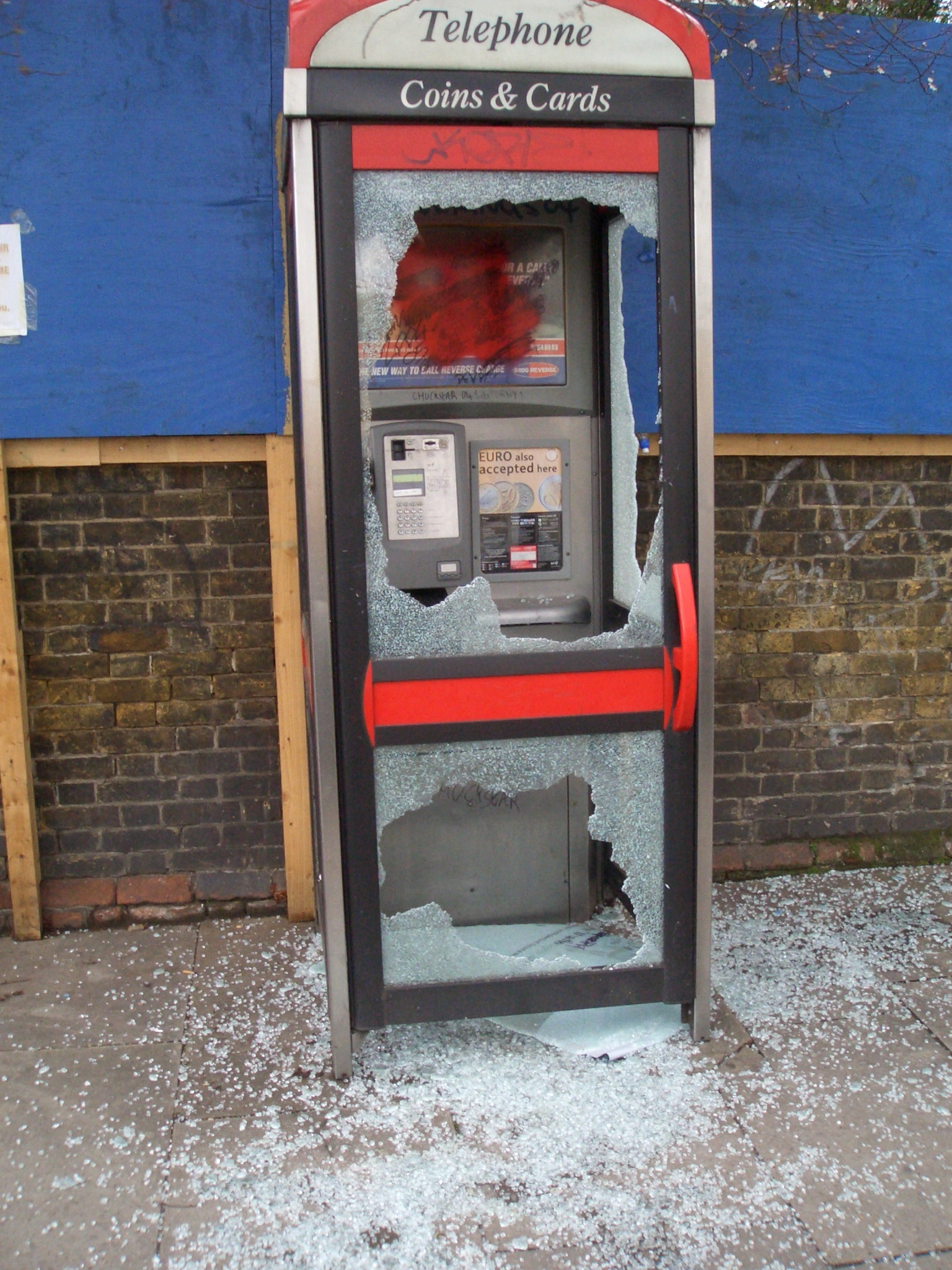 A telephone booth with smashed tempered glass in Holloway, London.